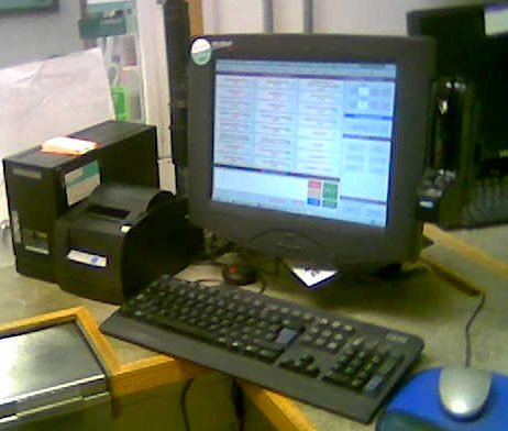 Author: Edmund Copping Shere Smart Ticket Issuing machine with ticket printer and tally roll printer